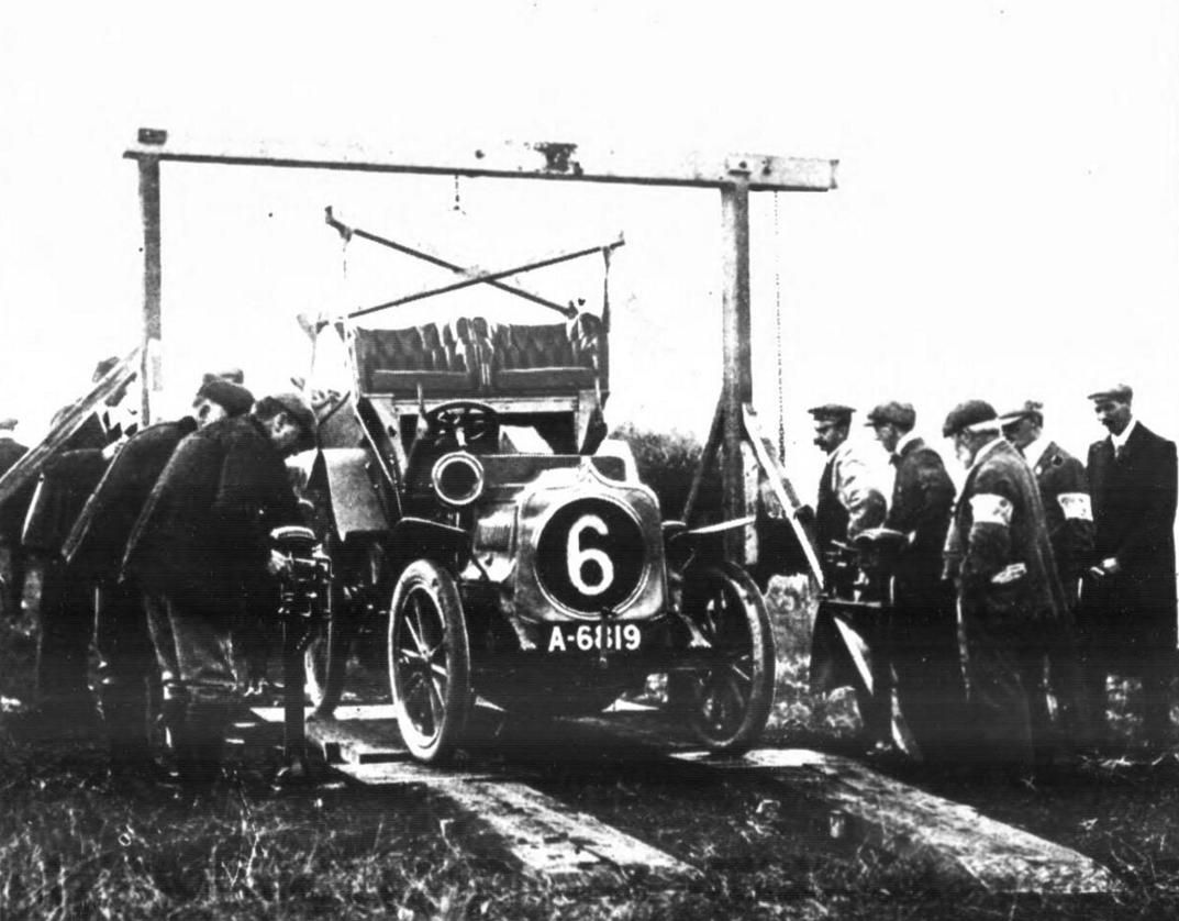 The 12-H.P. Speedwell being weighed without its body, which can be seen suspended above it.